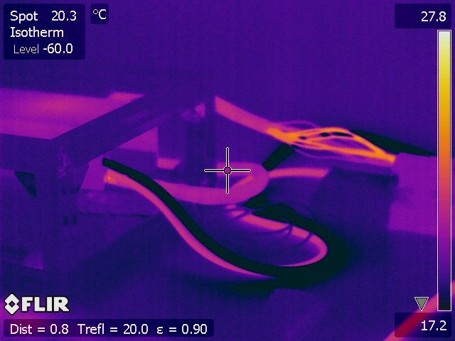 Water cooling tubes of a laser system